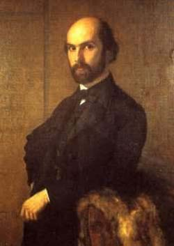 Swiss classical scholar Johann Jacob Bernoulli (* 18. Januar 1833, † 22. Juli 1913)